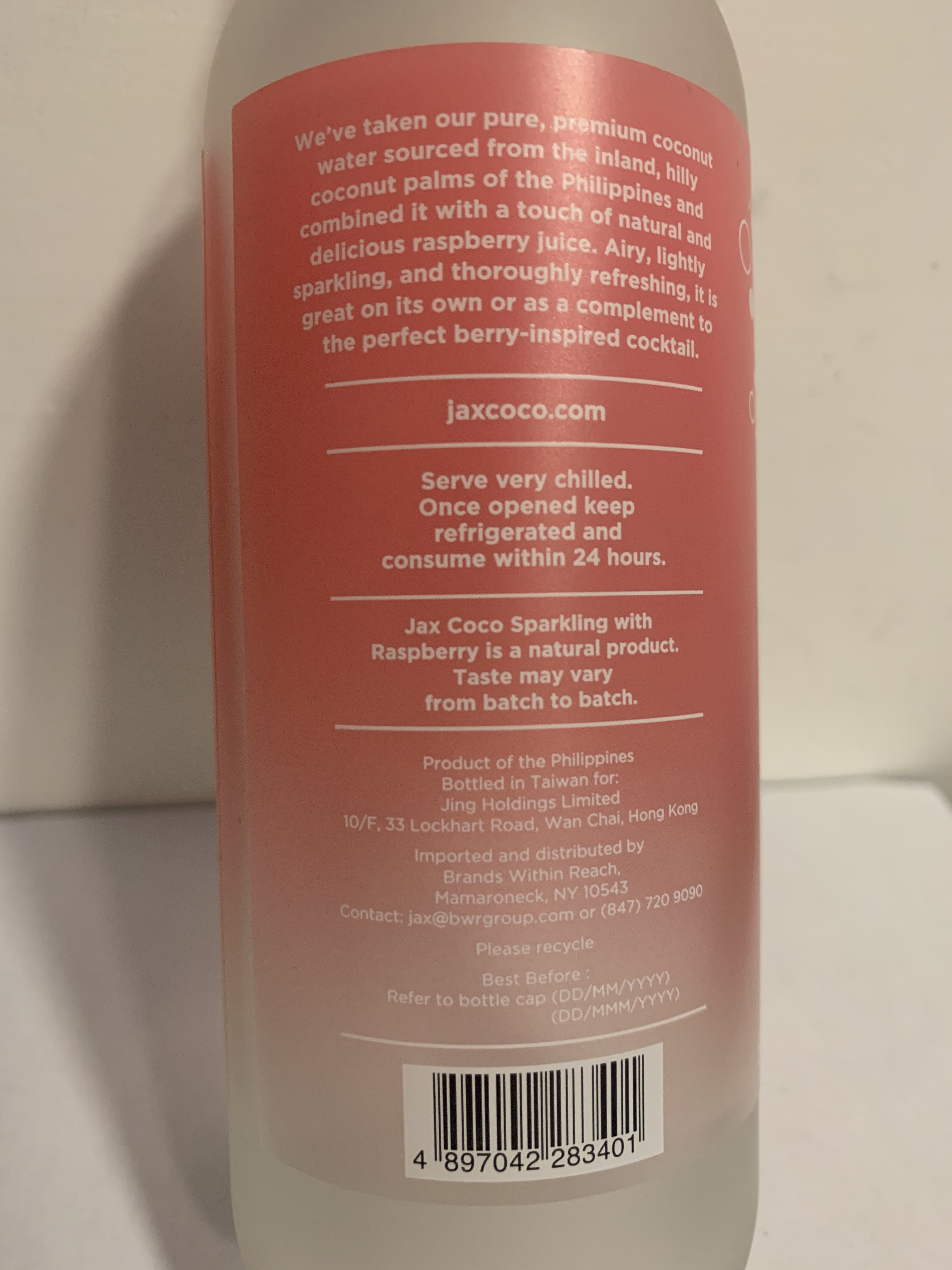 Jax Coco bottle drink profile photo